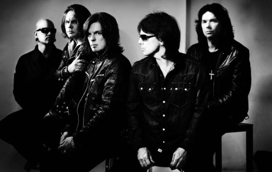 Europe em foto promocional para o Álbum "Bag Of Bones"